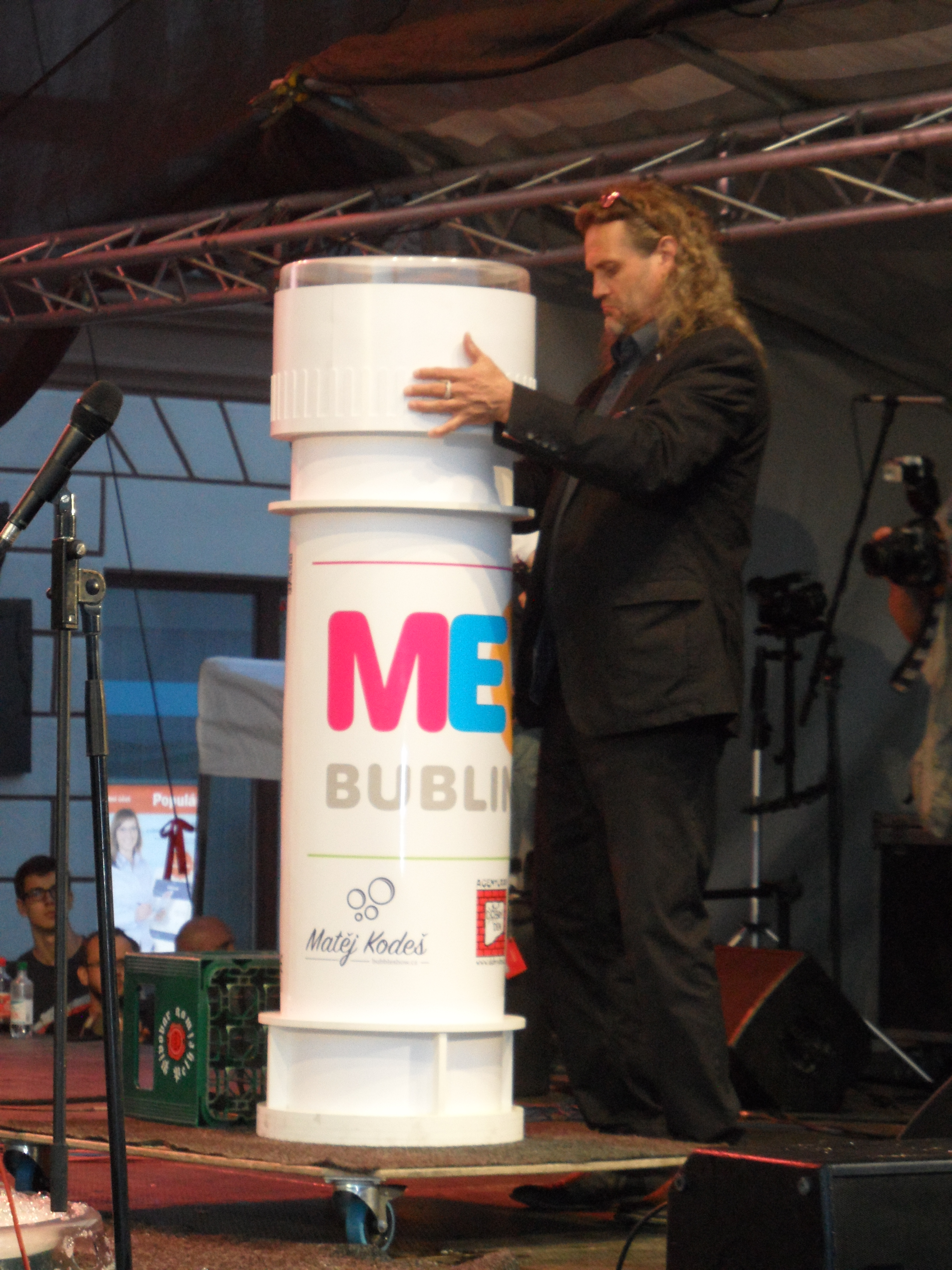 Festival Pelhřimov – the City of Records 2017, Evening Programme: Bubble Show of World Champion Matěj Kodeš. Pelhřimov District, the Czech Republic.